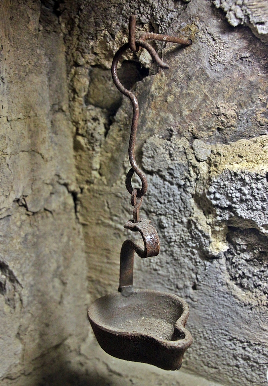 Rochlitz Castle, modern replica of a miners lamp ("frog lamp").